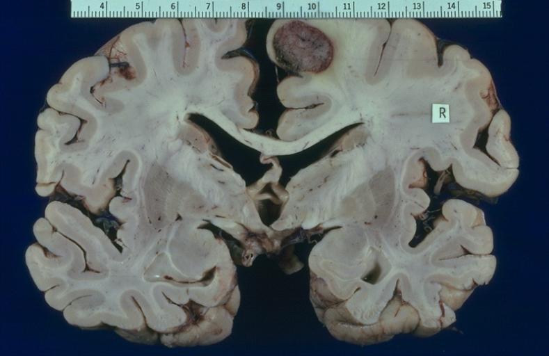 GROSS-THYROID GLAND: THYROID PAPILLARY CARCINOMA METASTATIC TO BRAIN This solitary brain metastasis from thyroid papillary carcinoma resulted in neurologic symptoms. The thyroid primary was clinically occult. (Courtesy of Dr. Nikola Kostich, Minneapolis, MN.)